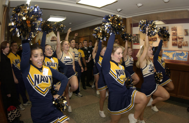 Caption: 031204-N-9693M-040 Washington, D.C. (Dec. 4, 2003) -- U.S. Naval Academy Midshipmen cheerleaders and members of the Academy Drum and Bugle Corps pass through the halls of the Pentagon during a "Go Navy, Beat Army" pep rally in advance of the 104th Army vs. Navy game, scheduled for Saturday, December 6th, at Lincoln Financial Field in Philadelphia, Pa. With a win against the Army "Black Knights," Navy (7-4) is this year's front-runner to win the military academies, coveted Commander-in-Chief's trophy, held by the Air Force for the last six consecutive years.